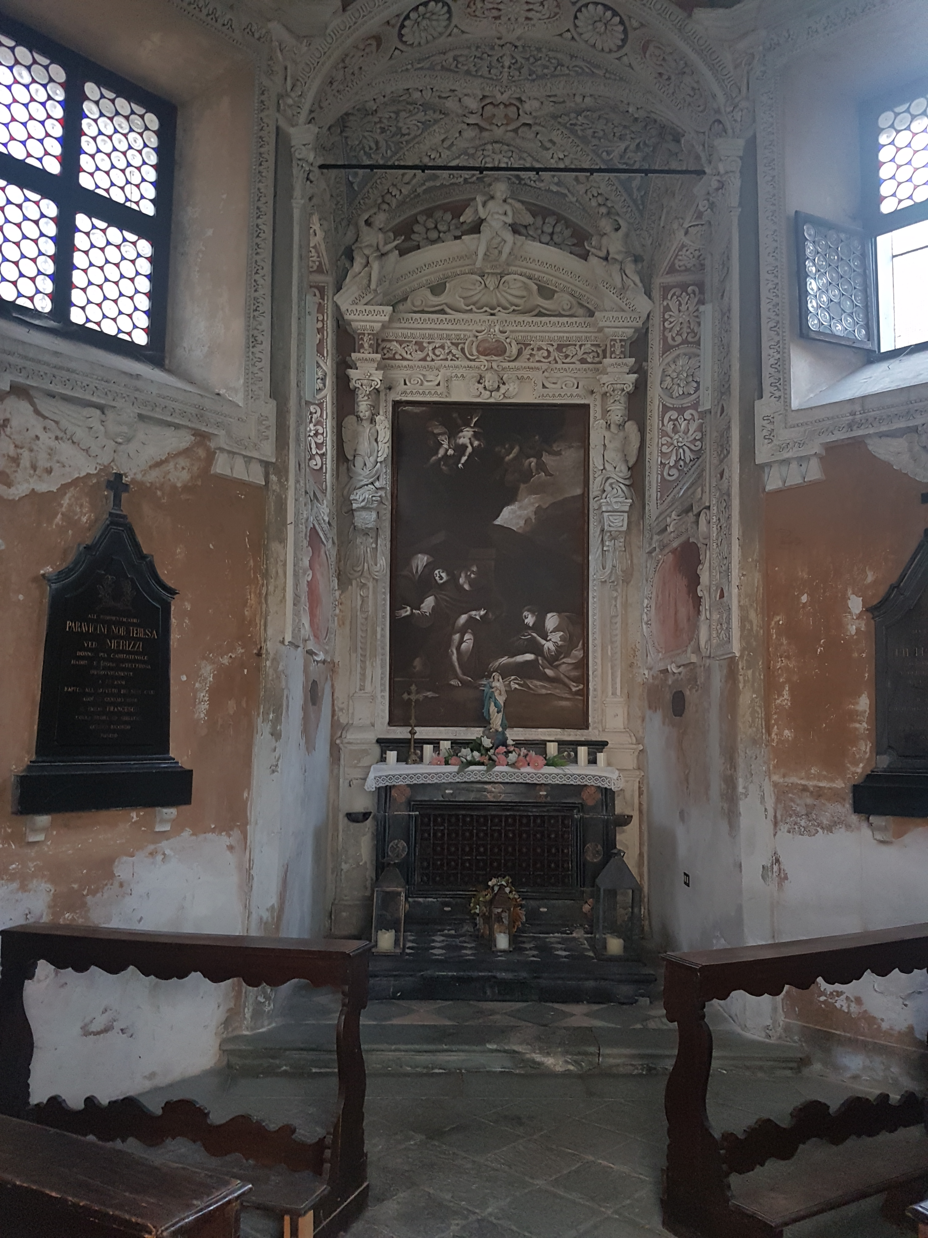 Church of Mariano Spasmo (Chiesa Mariano Spasmo) in Tirano.